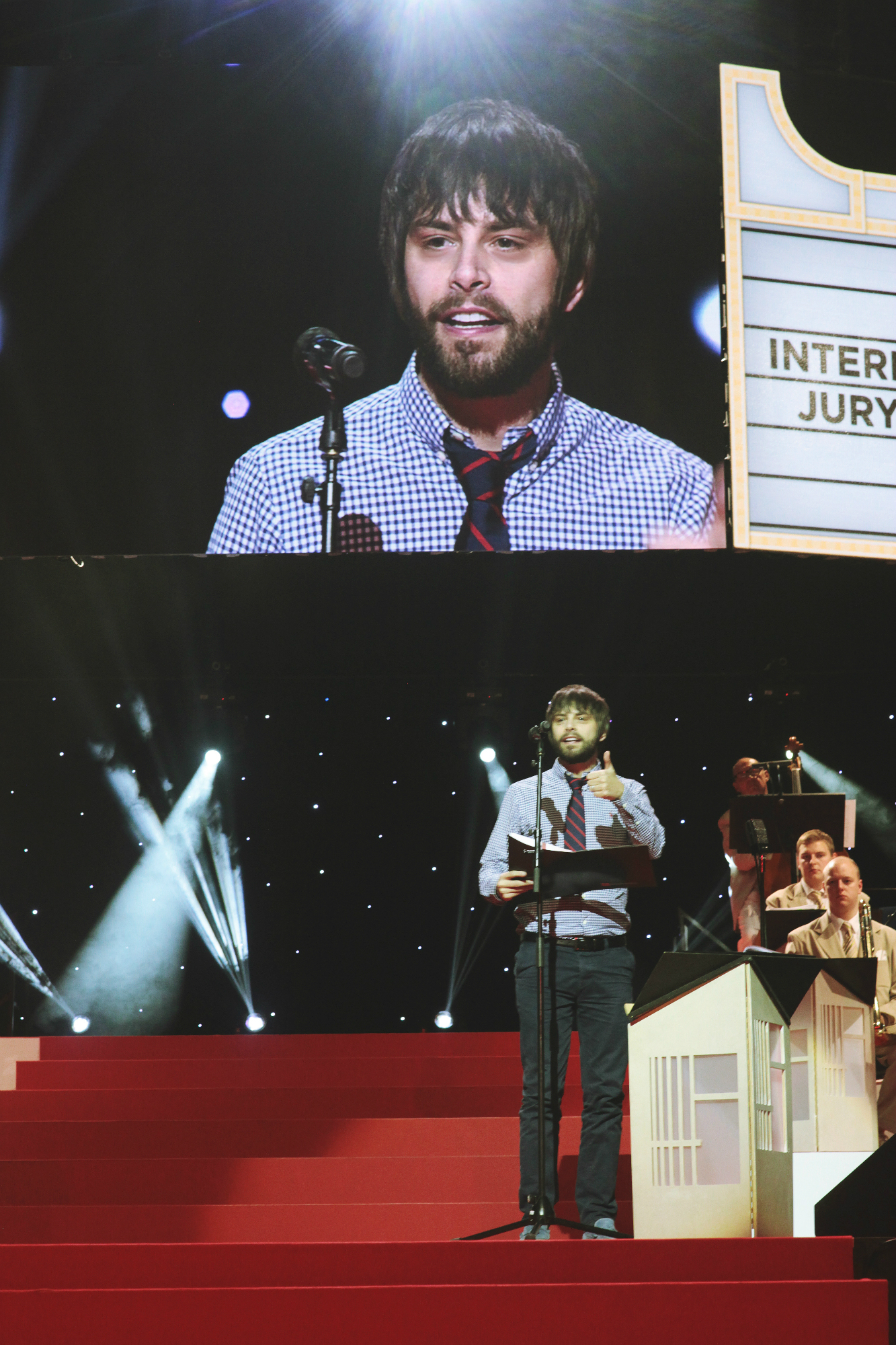 Taylor presenting the Best Actor award to Eddie Redmayne for the Theory of Everything